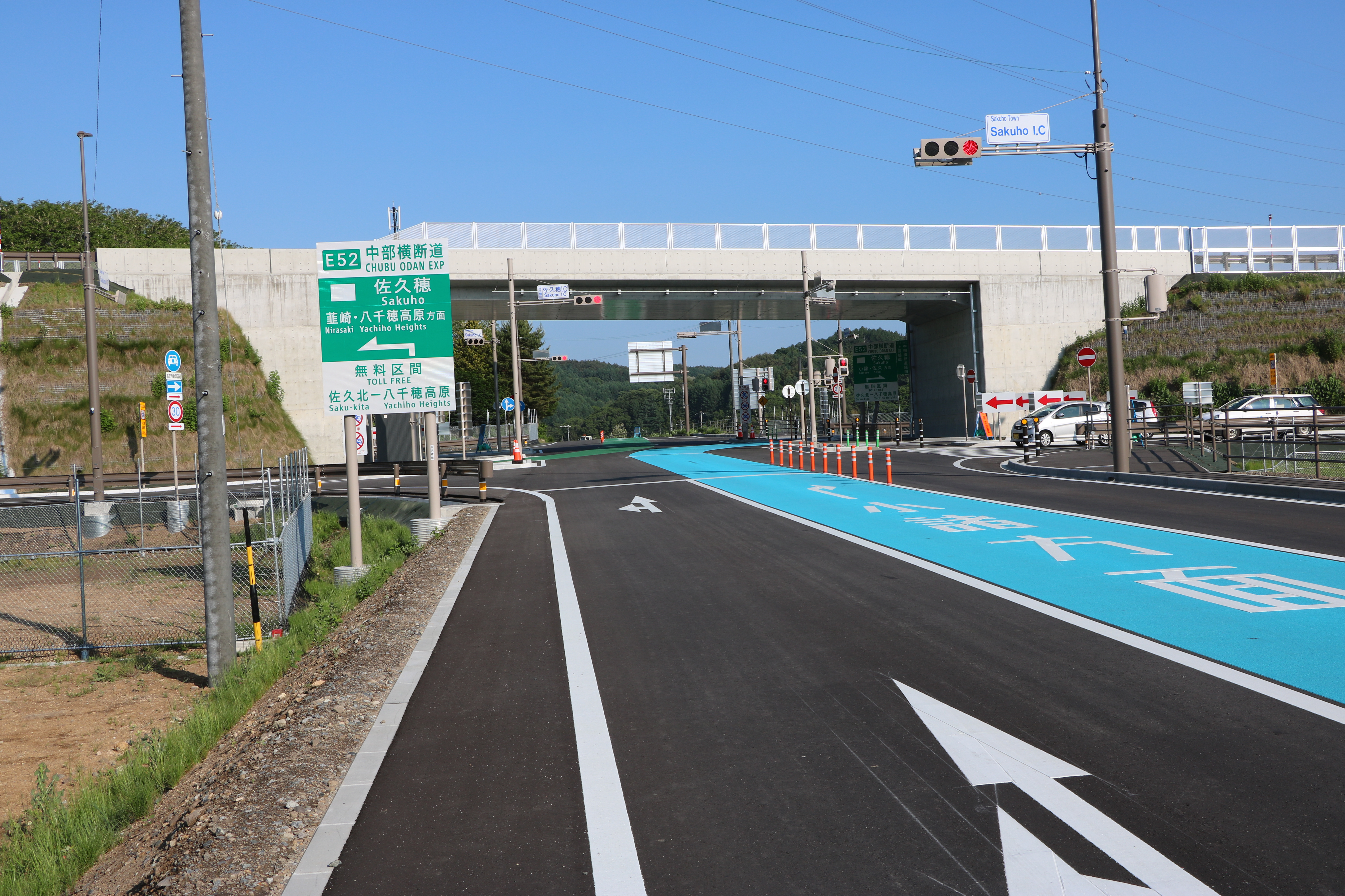 Chubu Odan Expressway Sakuho Interchange. Entrance